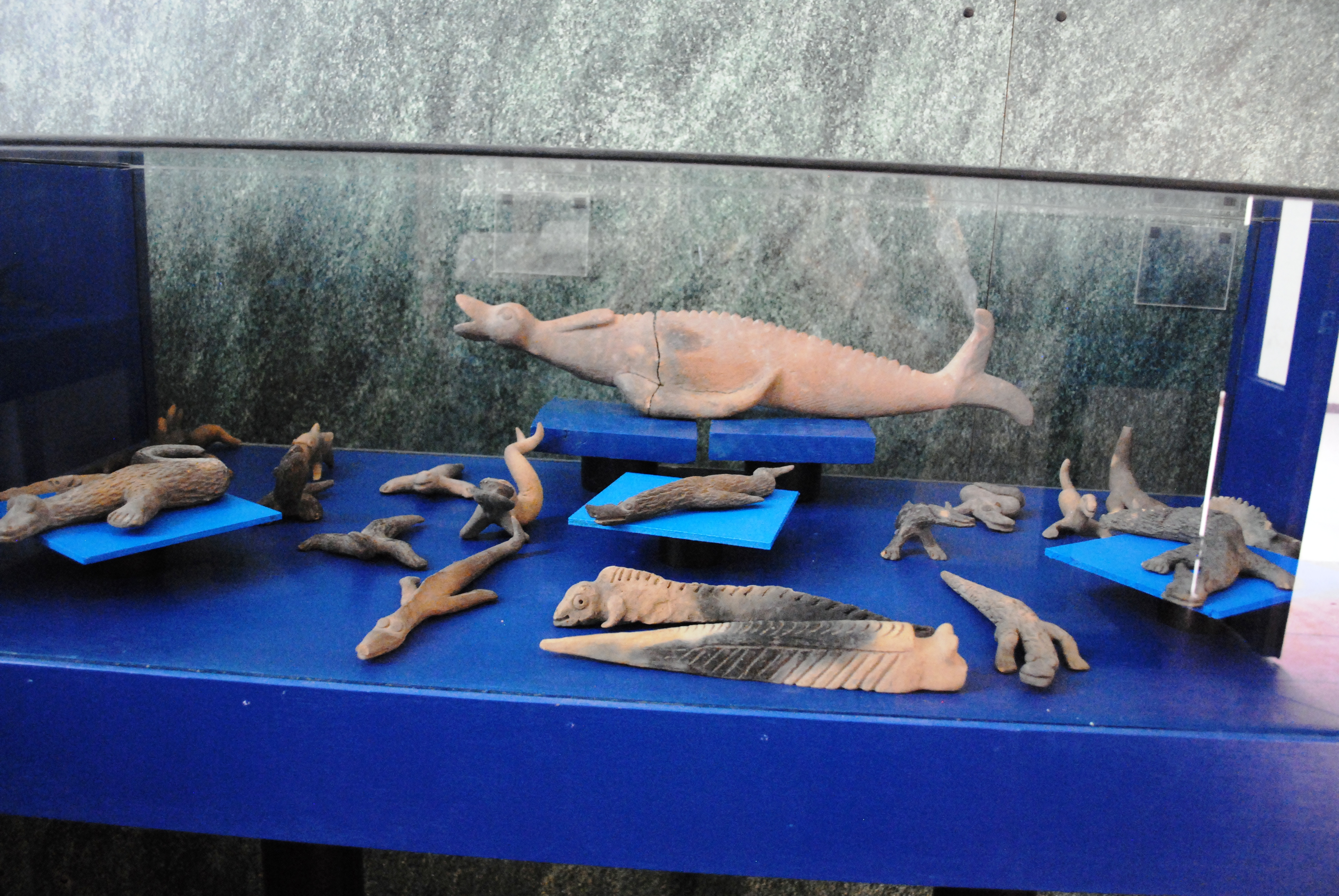 Muzeo Julsrud